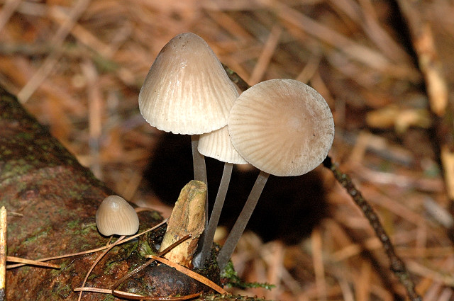 Mycena spec. from Commanster, Belgium. The determination of the species shown in this picture has been verified.